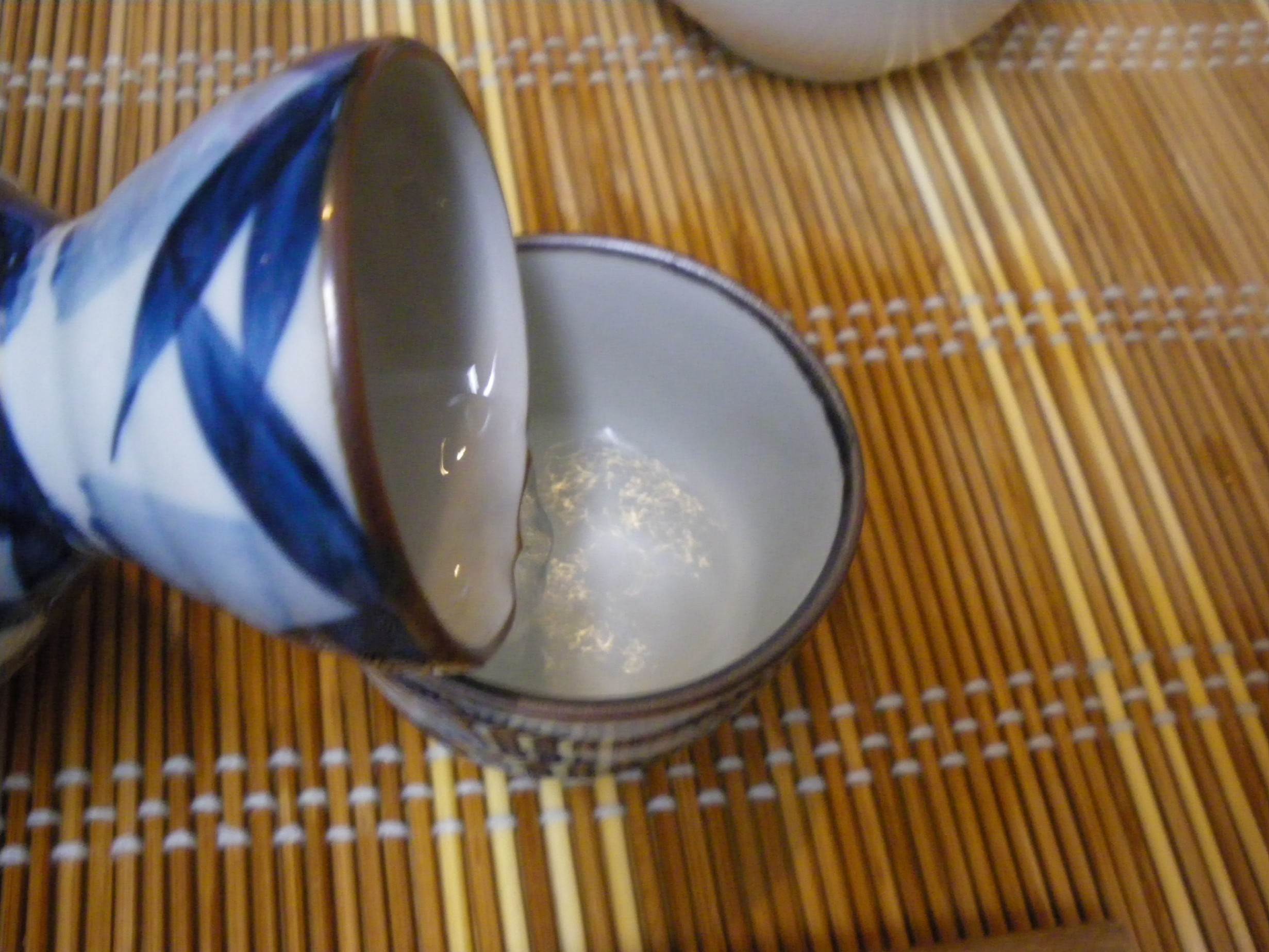 Japanese sake bottle(tokkuri) and takowasa((octpus with wasabi paste,a side dish of Japanese cuisine.）other version of File:Tokkuri sake and takowasa.JPG